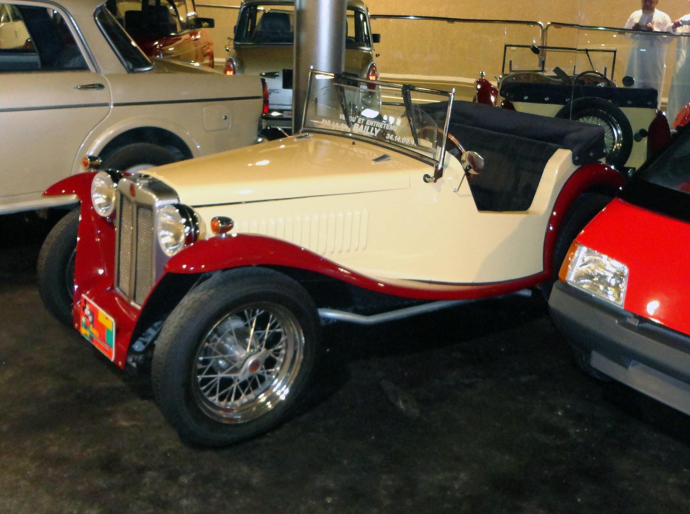 Circa 1983 ERAD Midget at the Emirates National Auto Museum, UAE. This is a 7/10ths replica of an MG TD.